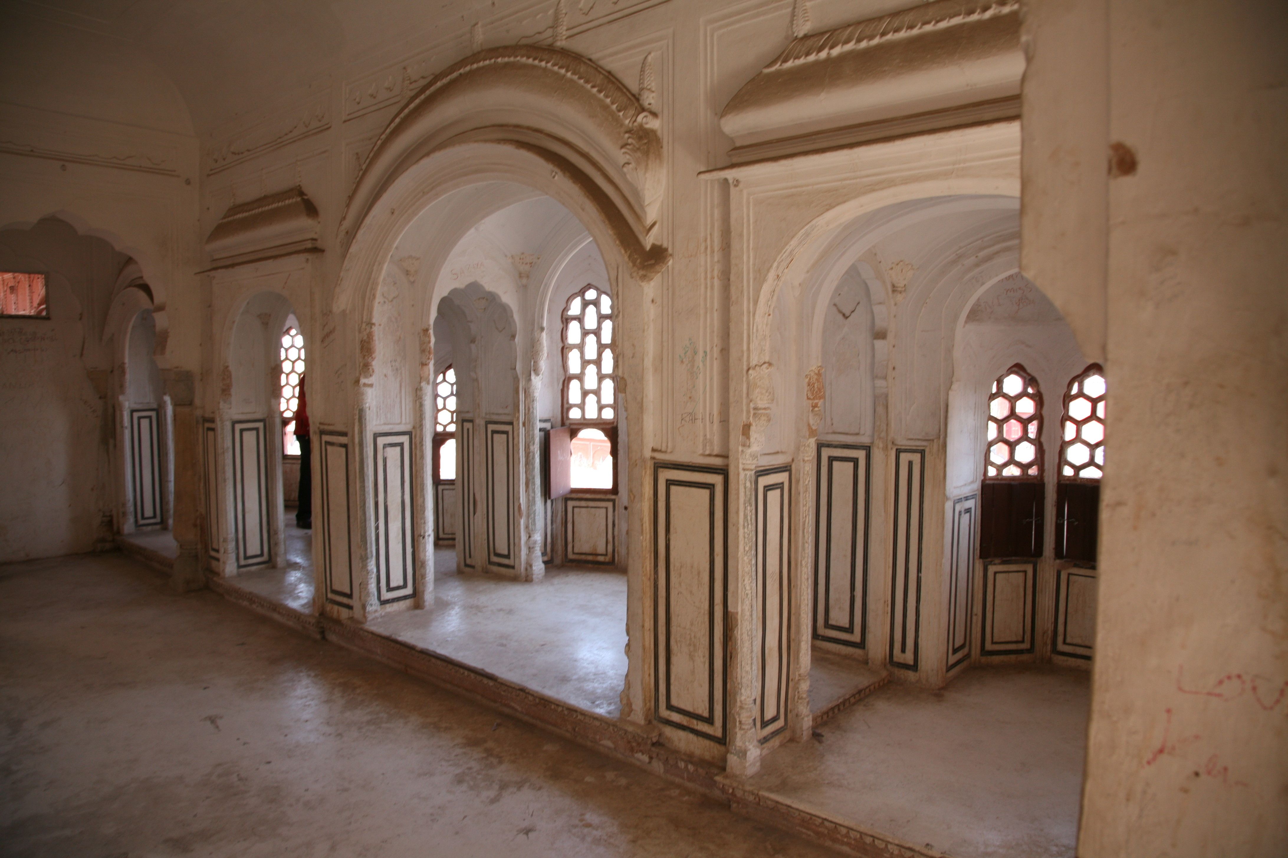 Hawa Mahal (Palace of Winds) in Jaipur. Inside.